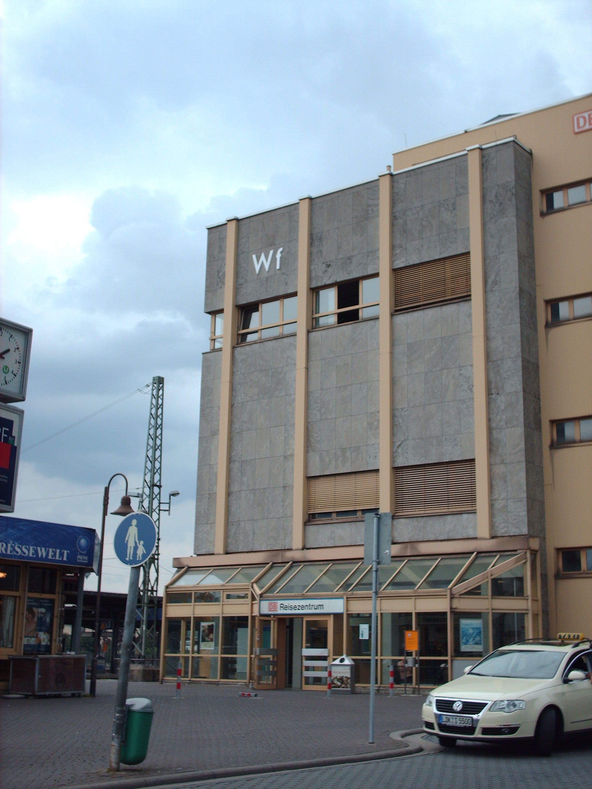 Wetzlar station, Wetzlar, Germany check usage